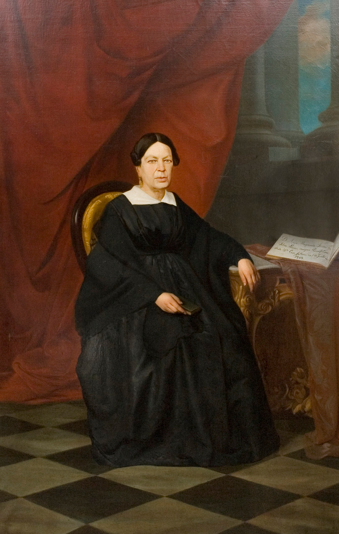 Portrait of Ana Margarida Soares da Silva Passos, c. 1869. In the Museum of the Misericórdia of Porto, Portugal.